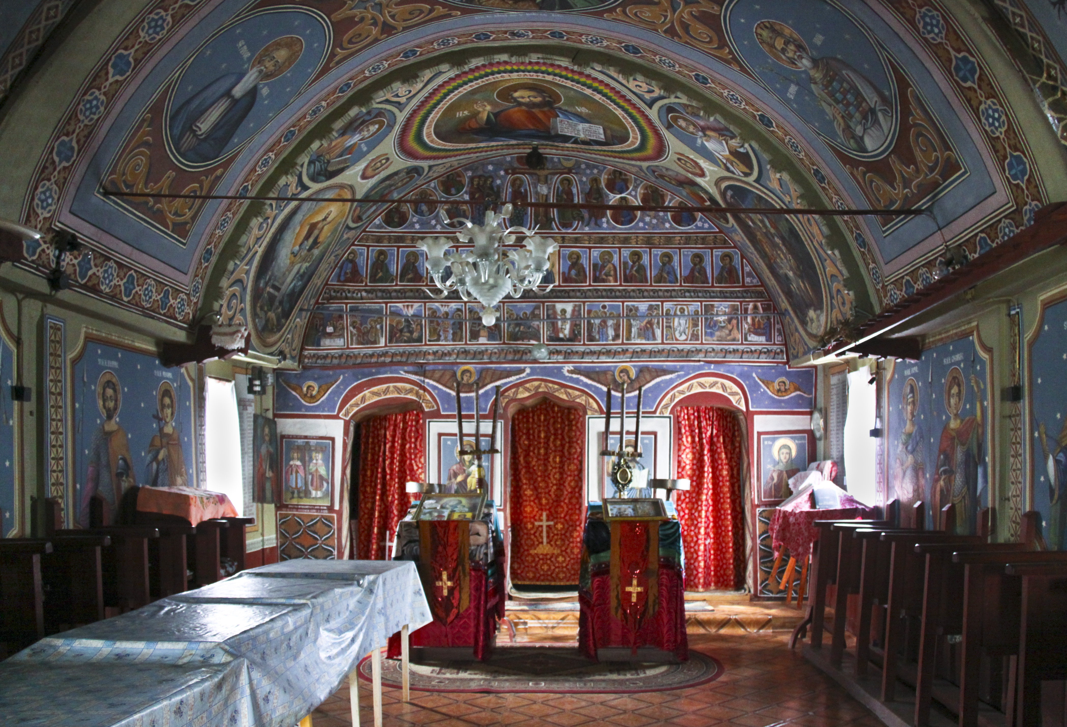 Gojgărei, Olt county, Romania: the wooden church, inside the nave.